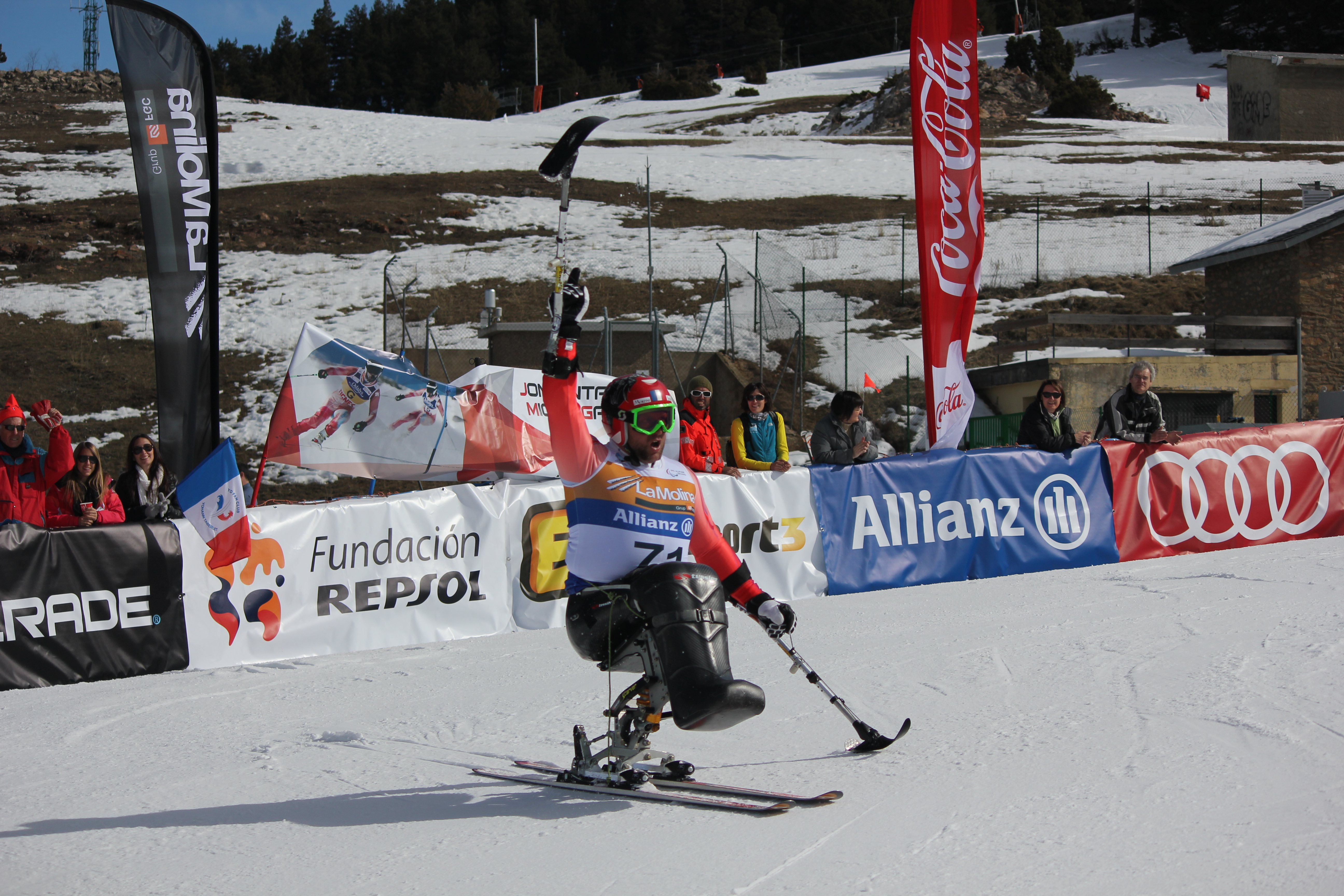 Yohann Taberlet from France. Super G, sitting. 2013 IPC Alpine World Championships in La Molina Spain.